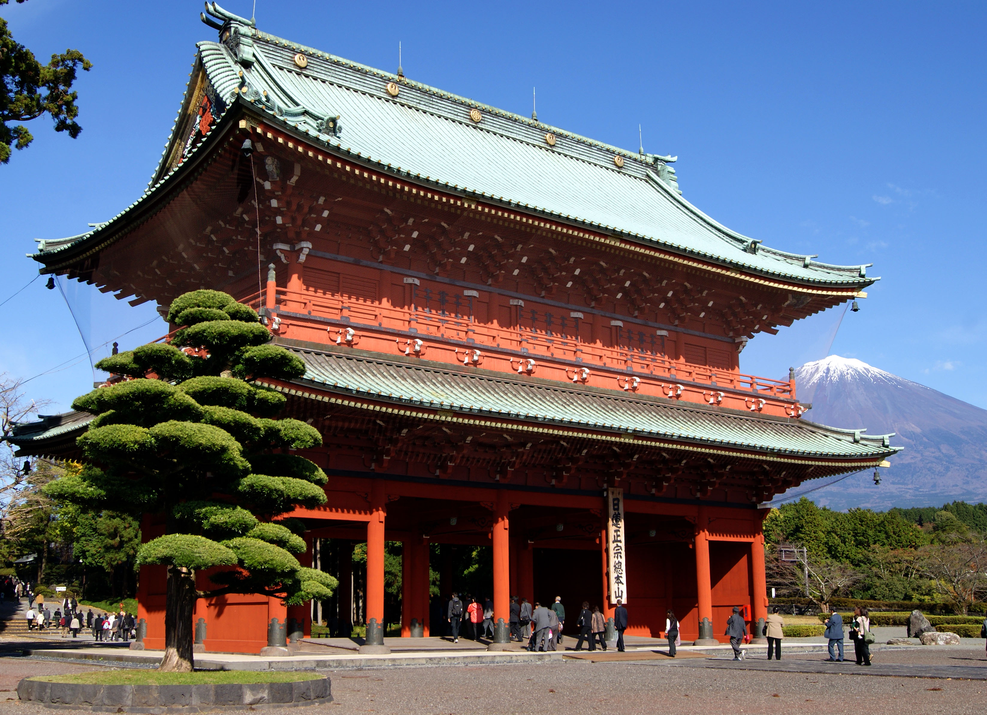 Sanmon of Taiseki-ji.